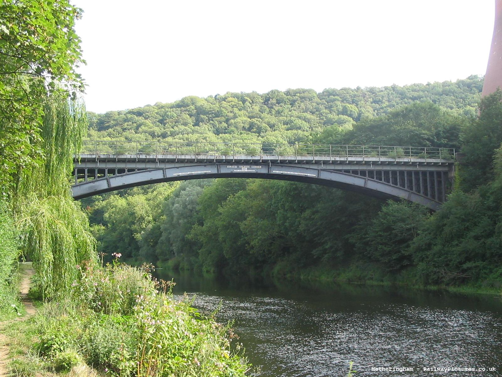 Albert Edward Bridge Photo Taken By Daniel Taylor.